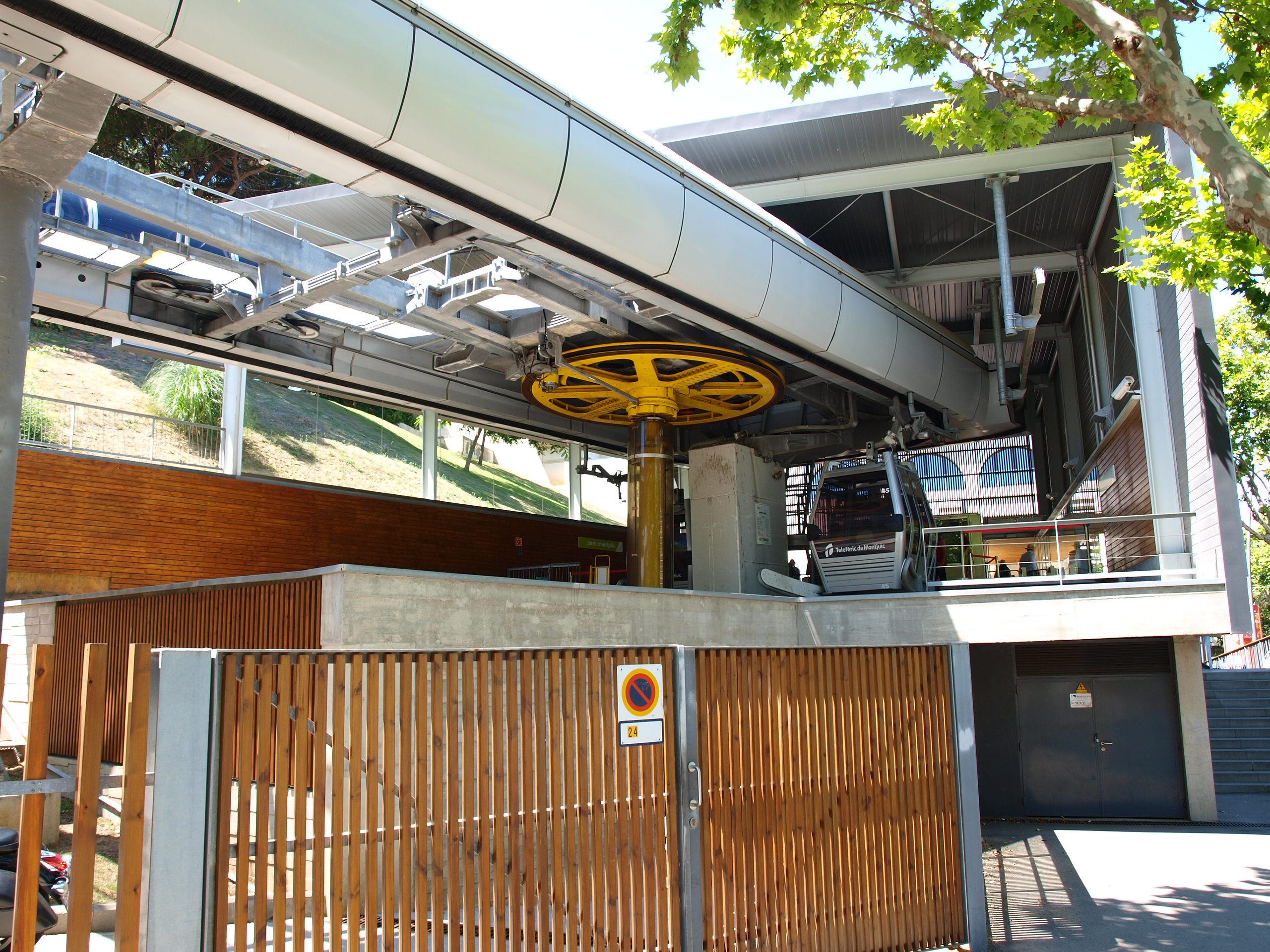 Telefèric de Montjuïc, Barcelona